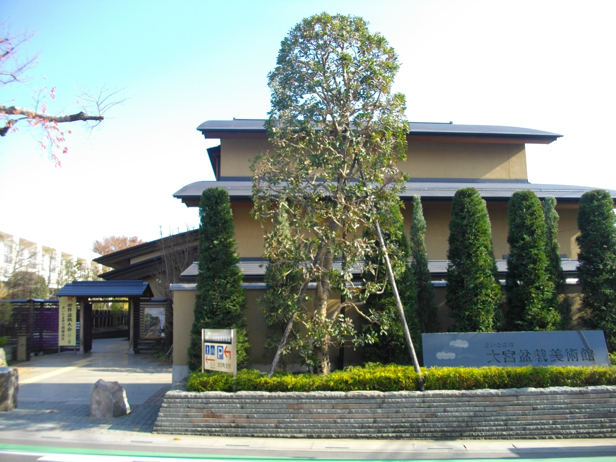 Saitama Municipal Omiya Bonsai Art Museum